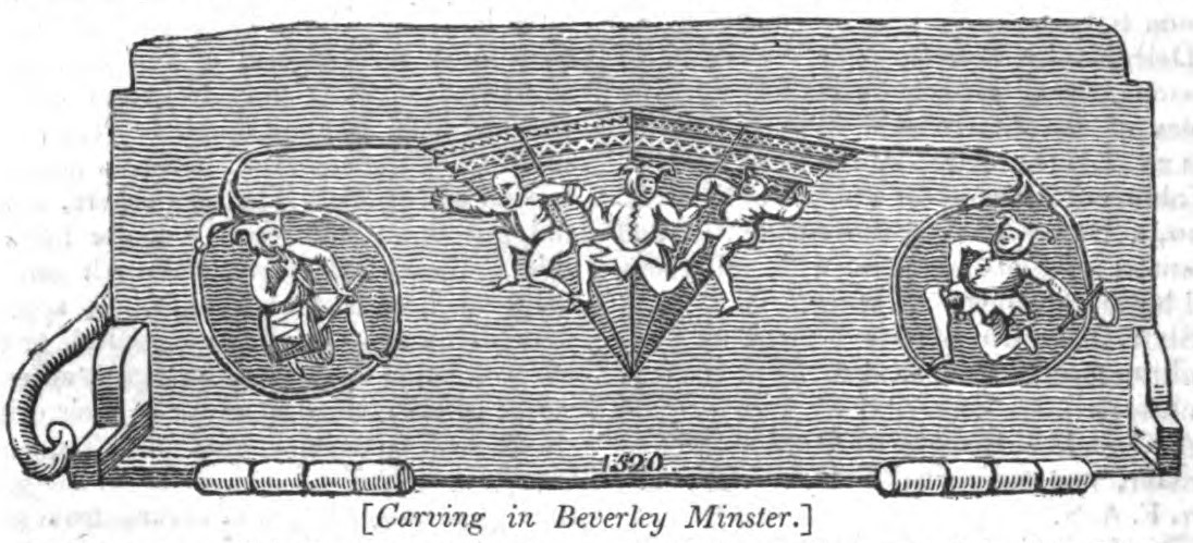 Feast of Fools, Carving in Beverley Minster (p.62, Jan 1824)